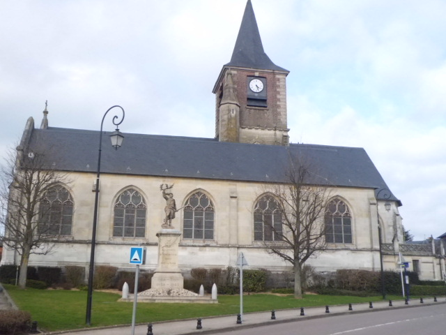 St Germain Church at Isneauville (Normandy)